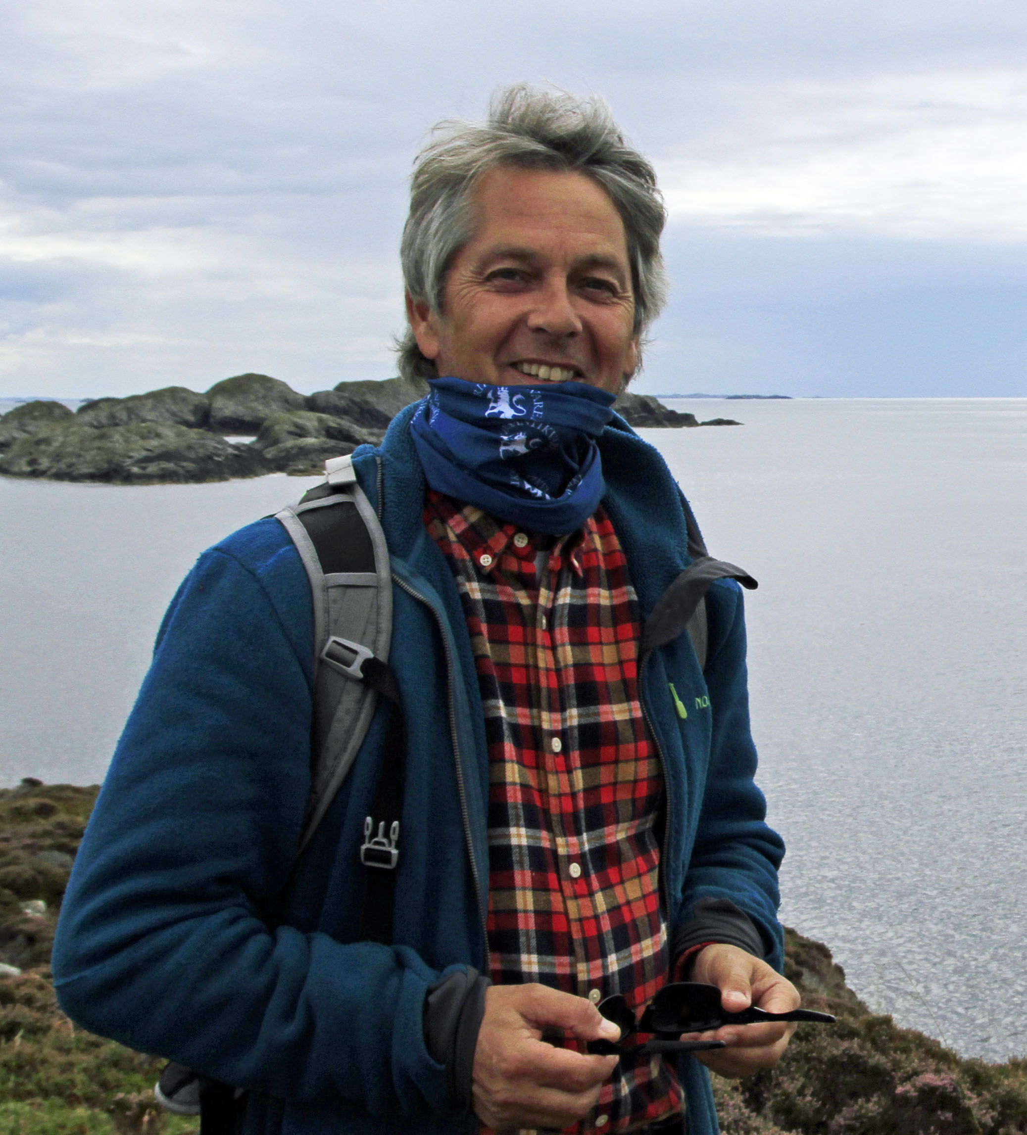 Oyvind Arntsen from Norwegian Broadcasting Corp. Presnter radio show MUSEUM NRK P2